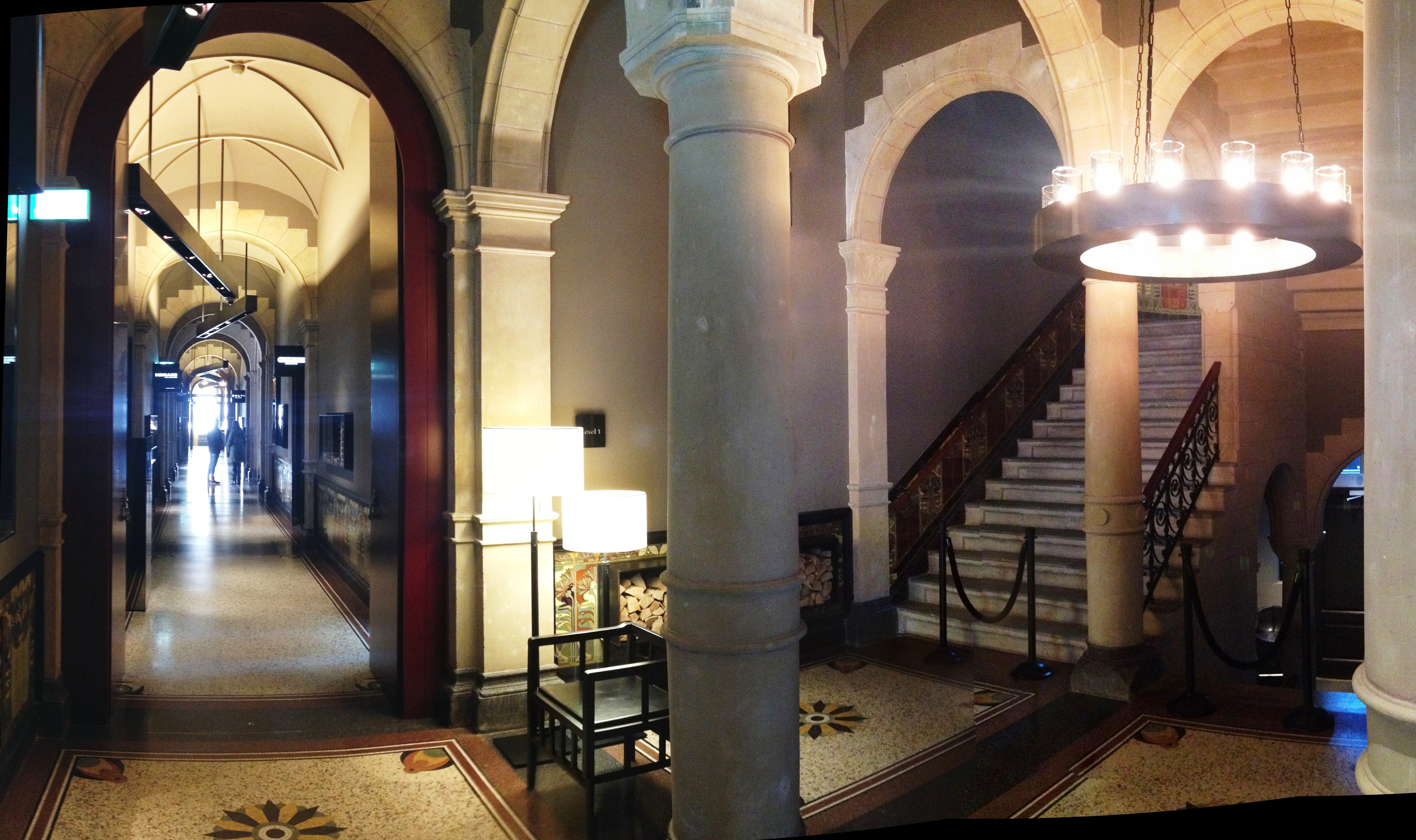 Interior of the former Rijkspostspaarbank in Amsterdam.